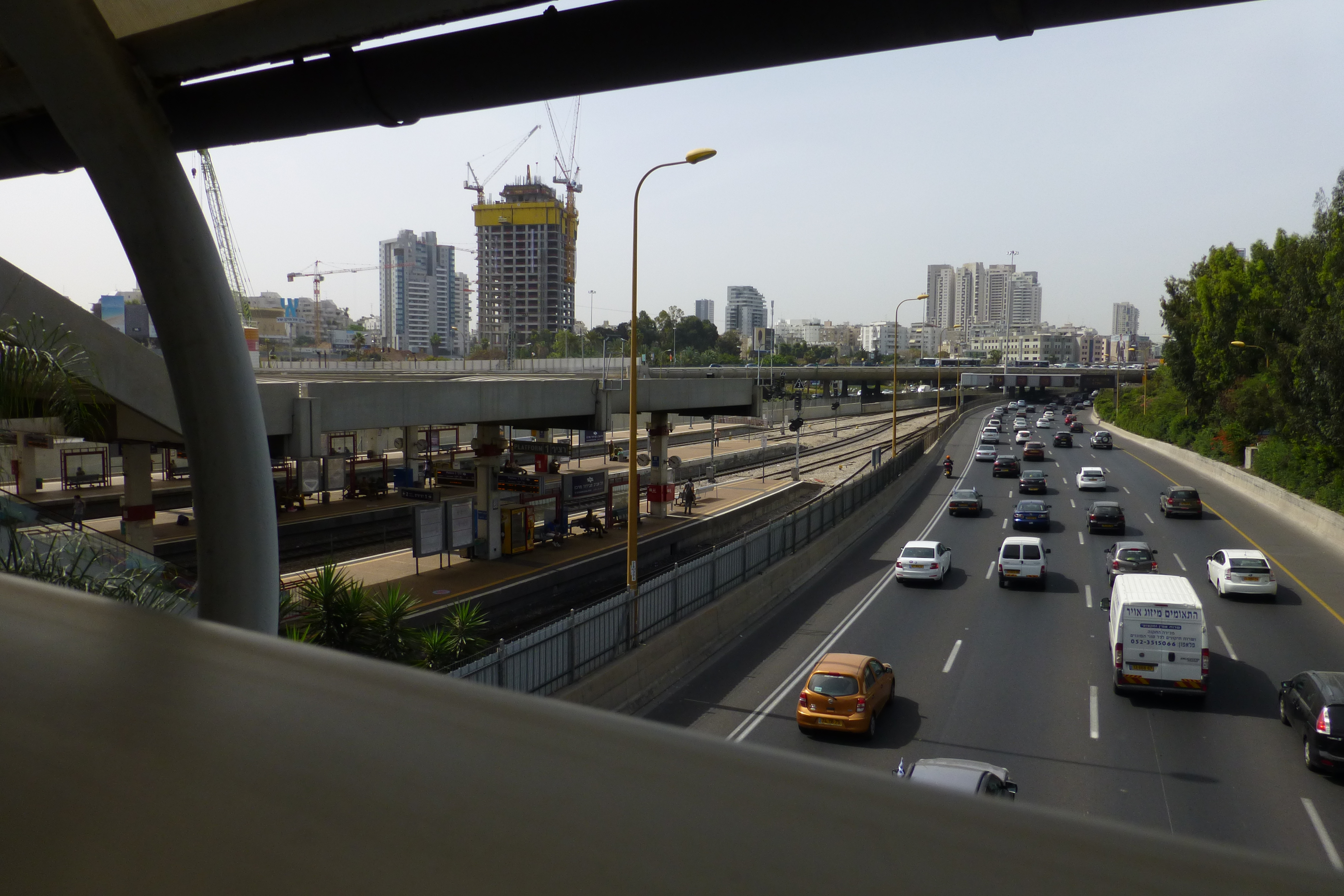 Highway 20 (Israel)